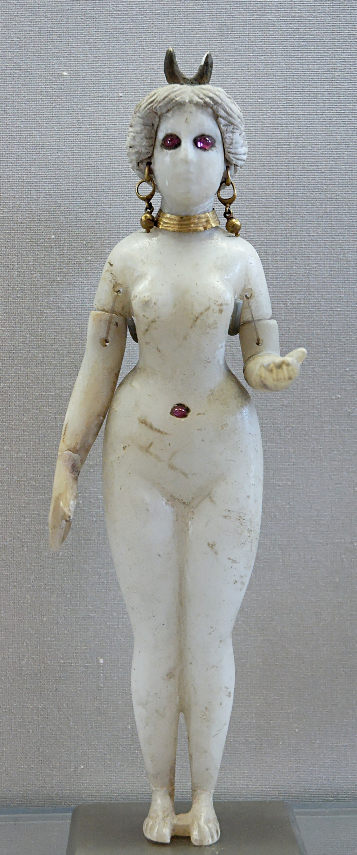 Statuette of a naked woman, maybe the Great Goddess of Babylon (or Ishtar). From the necropolis of Hillah, near Babylon.